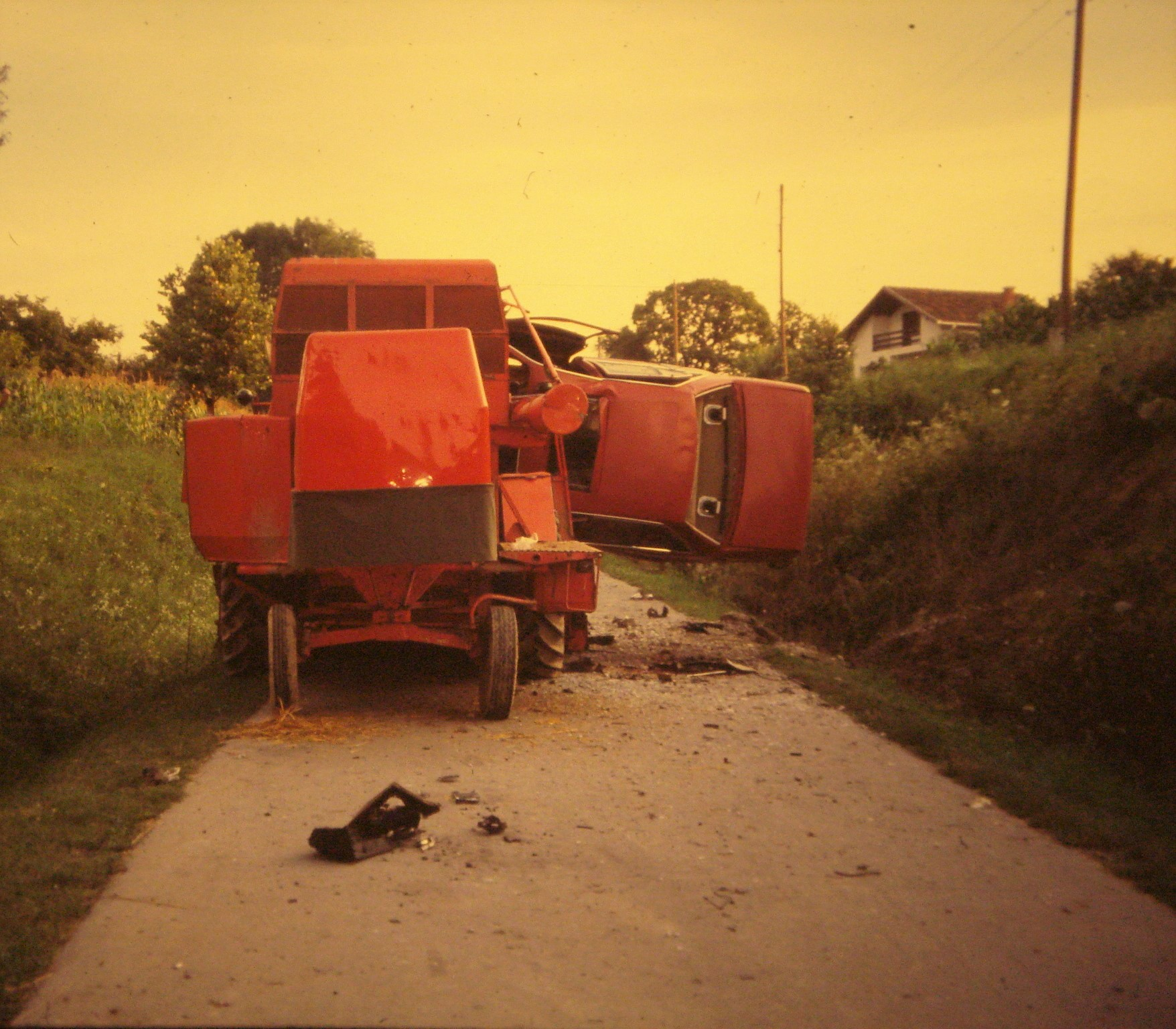 Automóvil pisa mina antitanque y queda montado sobre una máquina agrícola en Donja Rašenica. 1994.